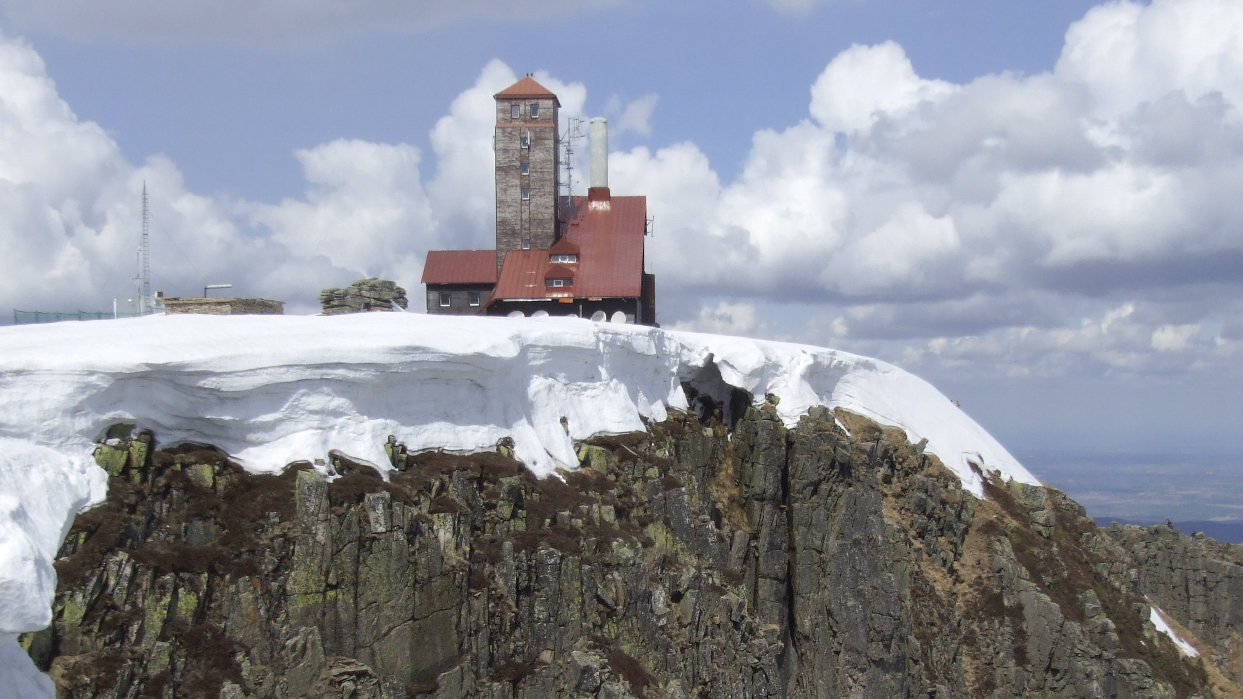 Former hostel Schneegrubenbaude (schronisko "Śnieżne Kotły"), now broadcasting station in Krkonoše Mountains / Giant Mountains (pol. Karkonosze, ger. Riesengebirge)